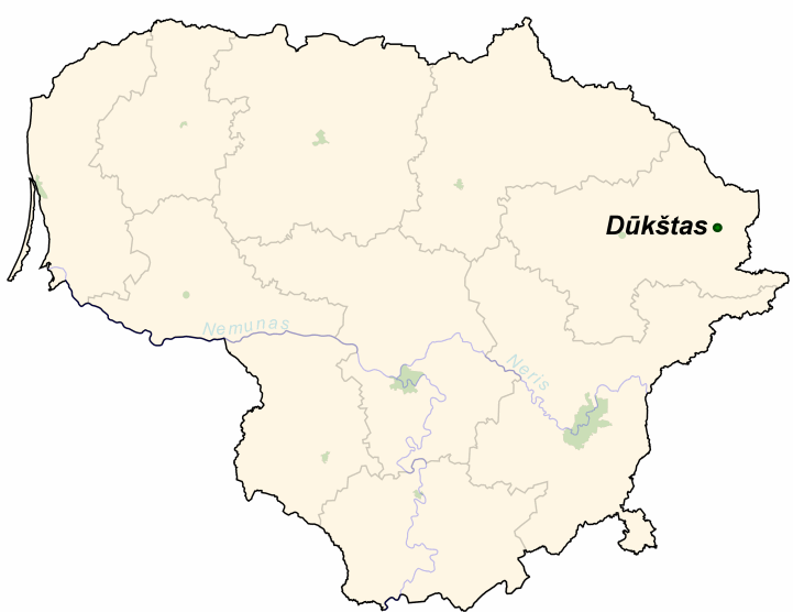 Dūkštas on the map of Lithuania